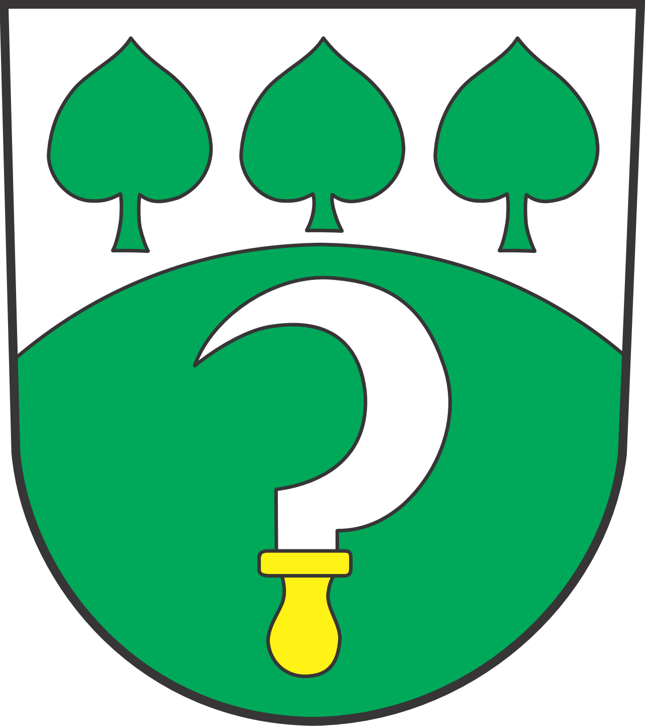 Muglinov coat of arms